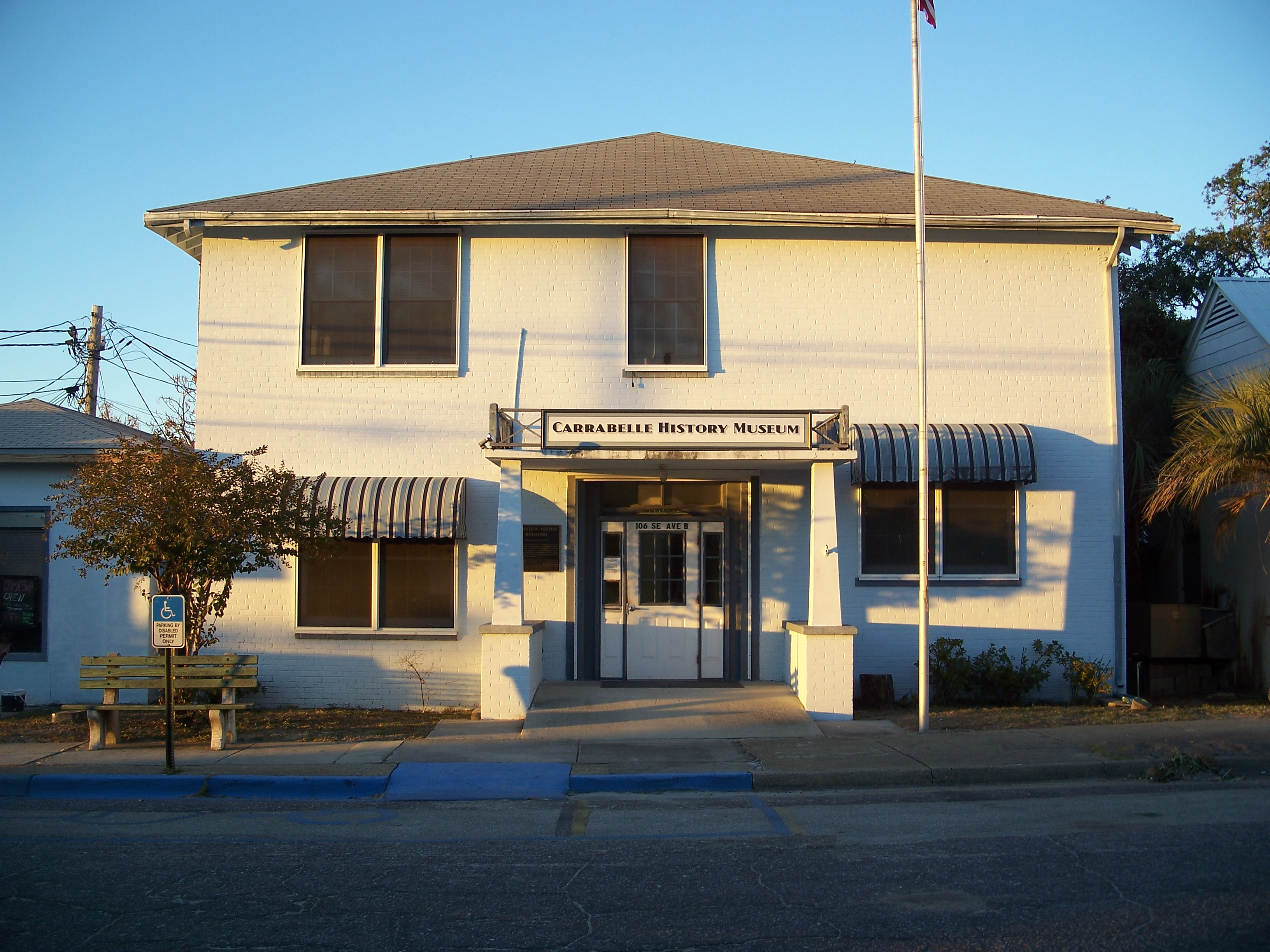 Carrabelle, Florida: Marvin N. Justiss Building, former city hall, now the Carrabelle History Museum